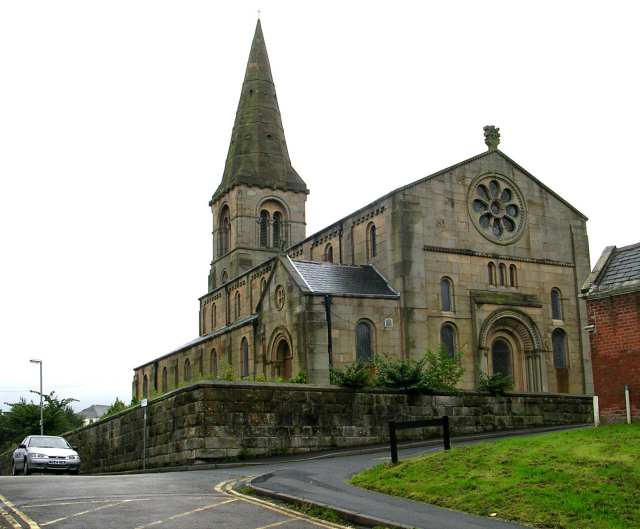 Former parish church of St Thomas, St Thomas's Place, Preston, Lancashire